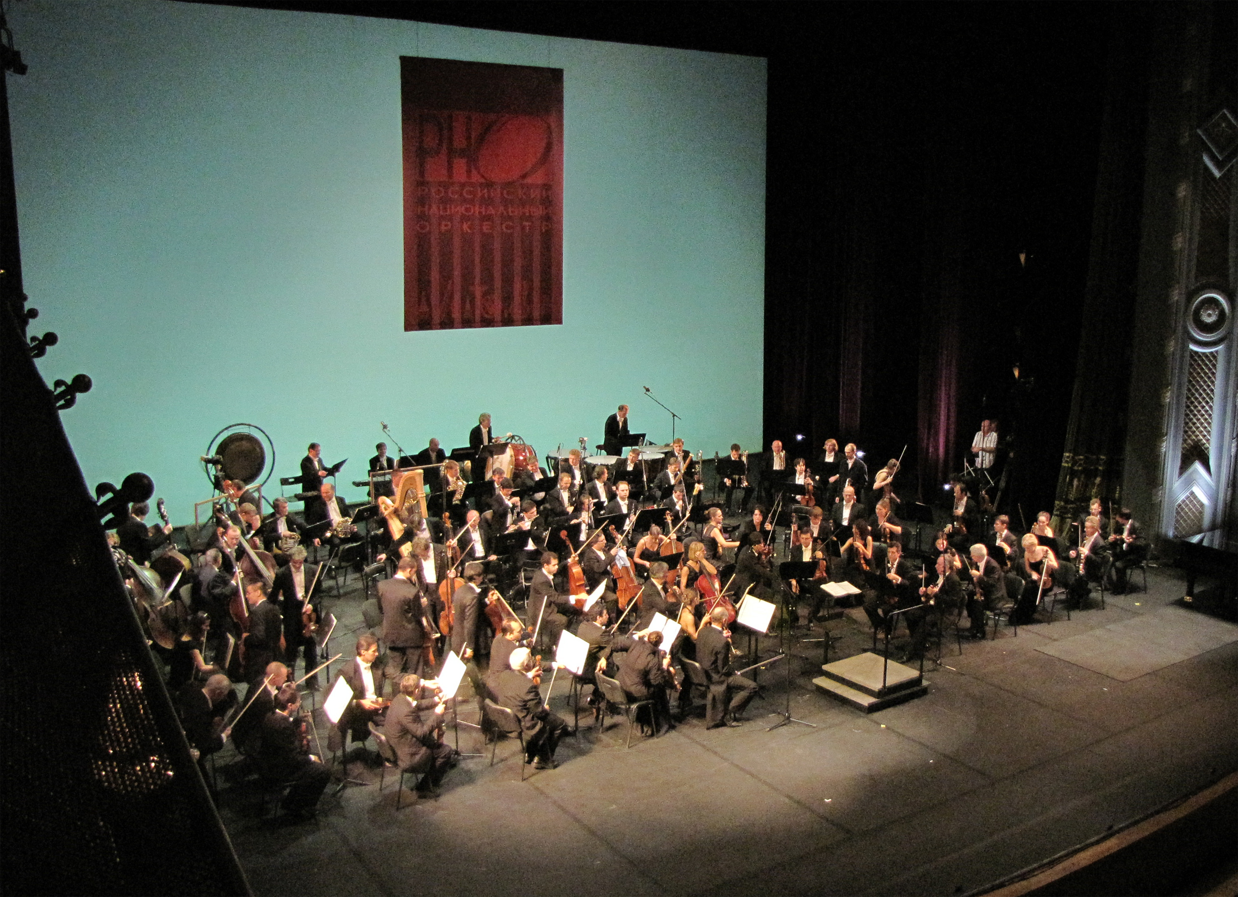 Russian National Orchesrtra